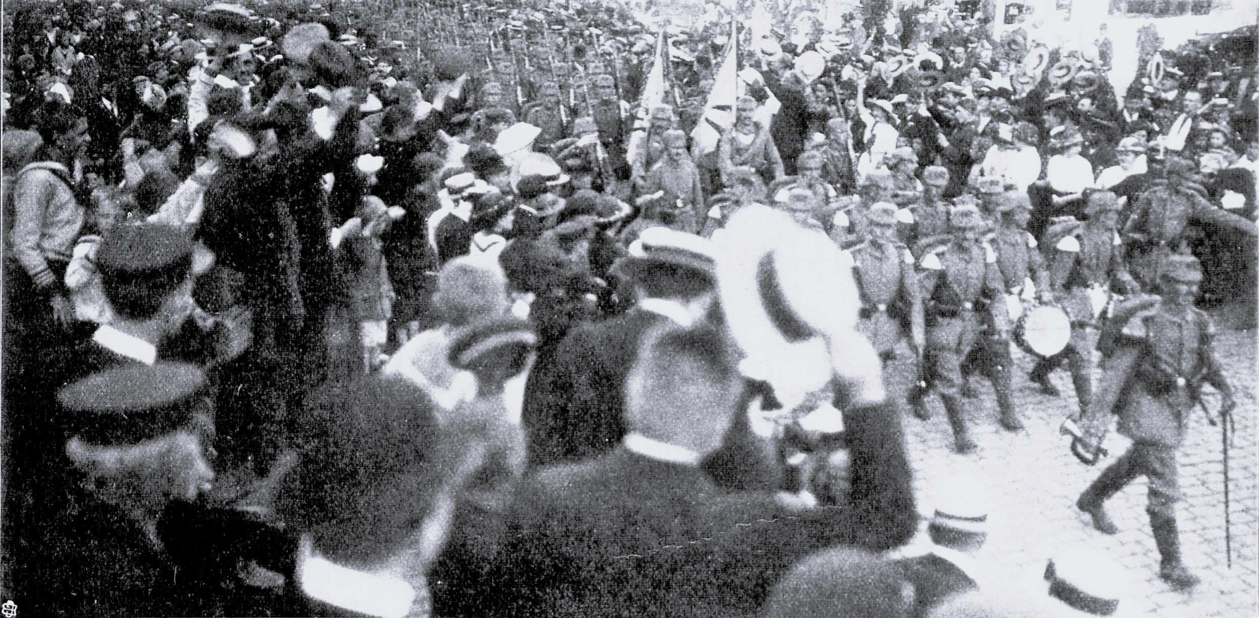 Mobilization in Lübeck. Departure of the 2nd battalion of the regiment Lübeck at the station to the island protection to Sylt with threatening danger of war, Austria ordered the mobilization.